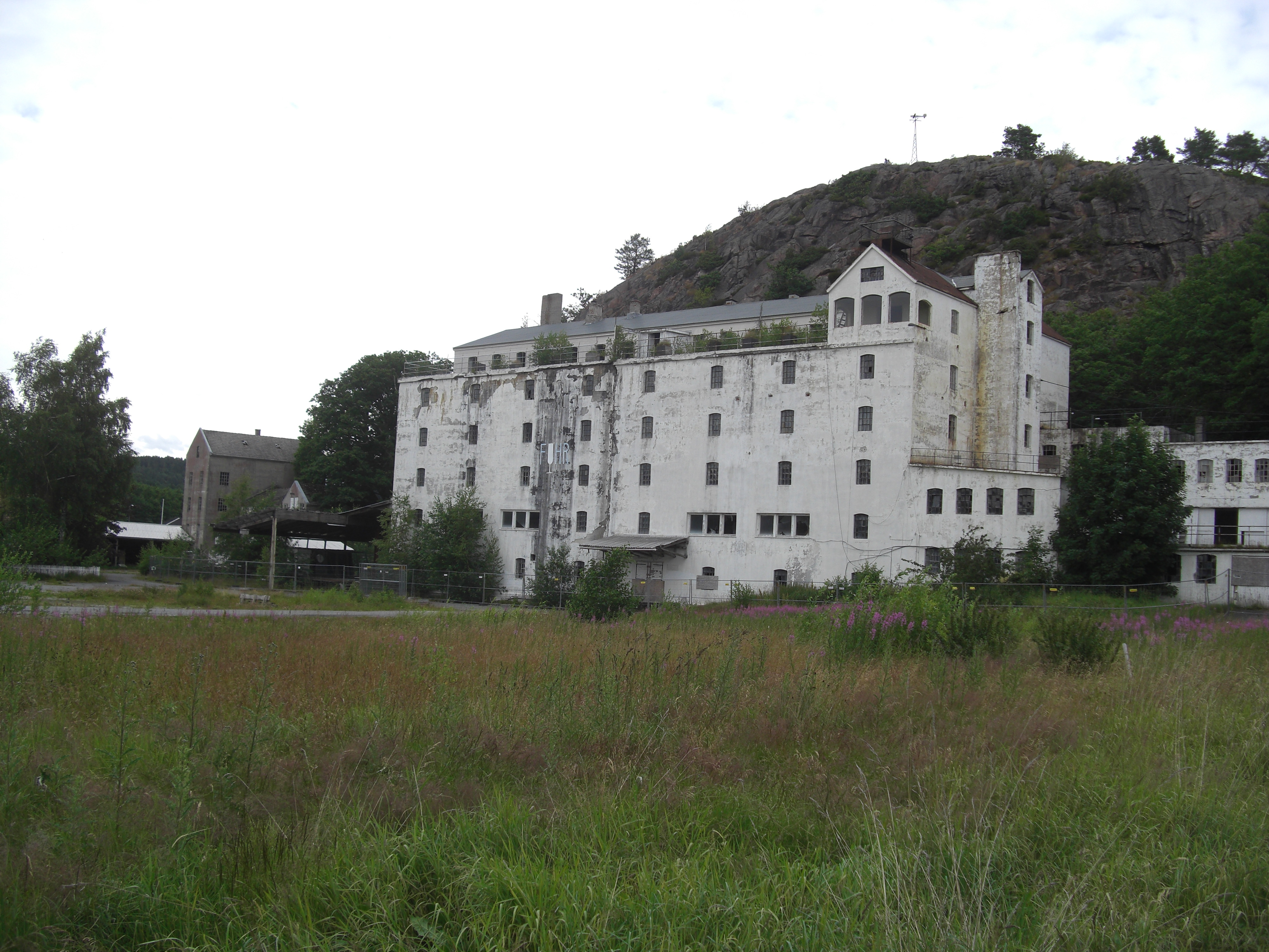 Fuhr wine brewery